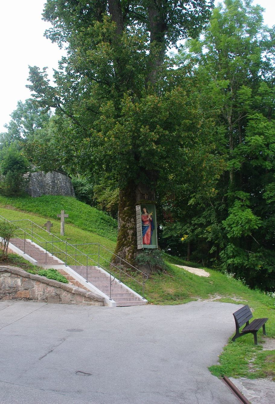 Bergfriedhof in Ruhpolding mit Friedhofskapelle, Gruftkapelle, Steinkreuzen und Madonnenfigur This is a photograph of an architectural monument. This is a photograph of an architectural monument. This is a photograph of an architectural monument. This is a photograph of an architectural monument. This is a photograph of an architectural monument.